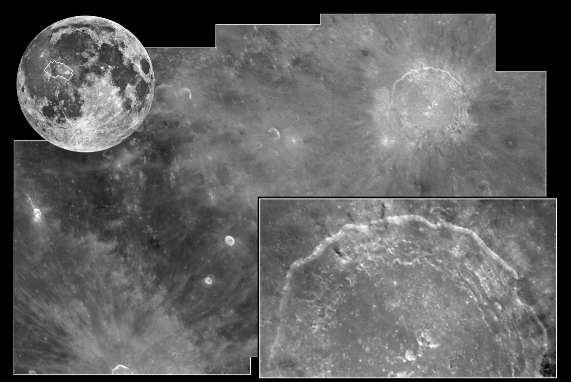 HUBBLE SHOOTS THE MOON in a change of venue from peering at the distant universe, NASA's Hubble Space Telescope has taken a look at Earth's closest neighbor in space, the Moon. Hubble was aimed at one of the Moon's most dramatic and photogenic targets, the 58 mile-wide (93 km) impact crater Copernicus. The image was taken while the Space Telescope Imaging Spectrograph(STIS) was aimed at a different part of the moon to measure the colors of sunlight reflected off the Moon. Hubble cannot look at the Sun directly and so must use reflected light to make measurements of the Sun's spectrum. Once calibrated by measuring the Sun's spectrum, the STIS can be used to study how the planets both absorb and reflect sunlight.(upper left)The Moon is so close to Earth that Hubble would need to take a mosaic of 130 pictures to cover the entire disk. This ground-based picture from Lick Observatory shows the area covered in Hubble's photomosaic with the WideField Planetary Camera 2..(center)Hubble's crisp bird's-eye view clearly shows the ray pattern of bright dust ejected out of the crater over one billion years ago, when an asteroid larger than a mile across slammed into the Moon. Hubble can resolve features as small as 600 feet across in the terraced walls of the crater, and the hummock-like blanket of material blasted out by the meteor impact.(lower right)A close-up view of Copernicus' terraced walls. Hubble can resolve features as small as 280 feet across.